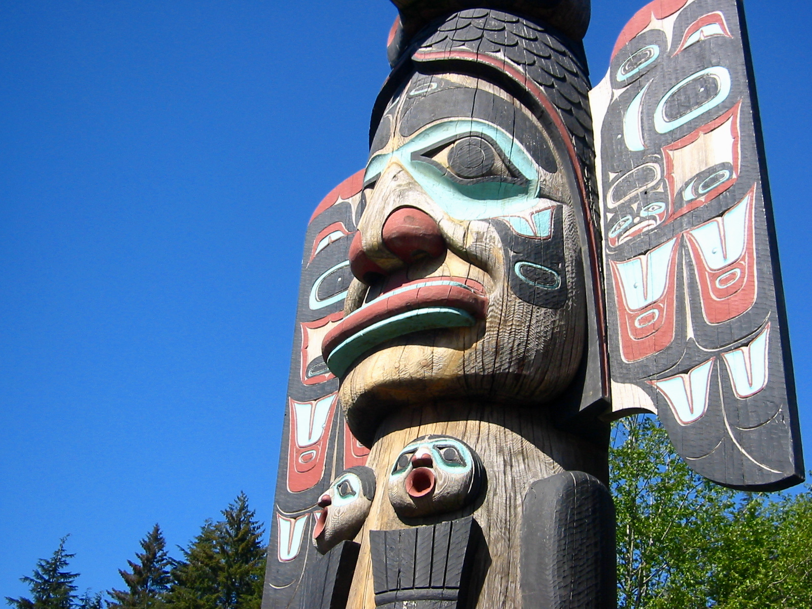 Ketchikan, Alaska. Native American totem pole